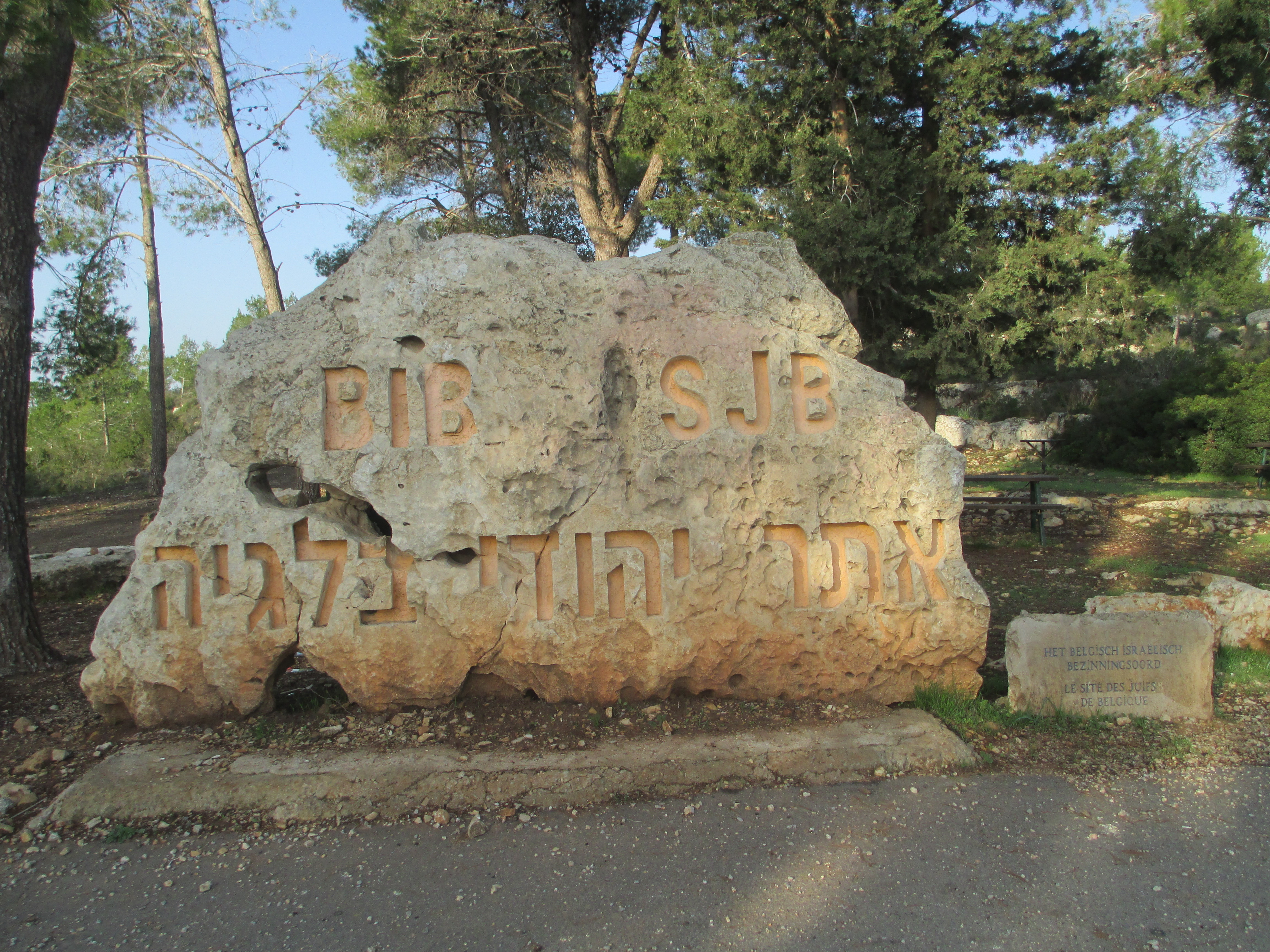 Belgium jews memorial in Neve Illan Forest